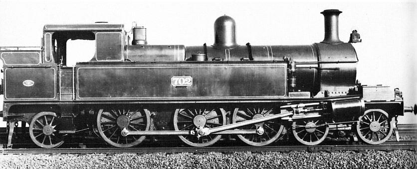 Victorian Railways photograph of Dde class tank engine Dde 702, circa 1910